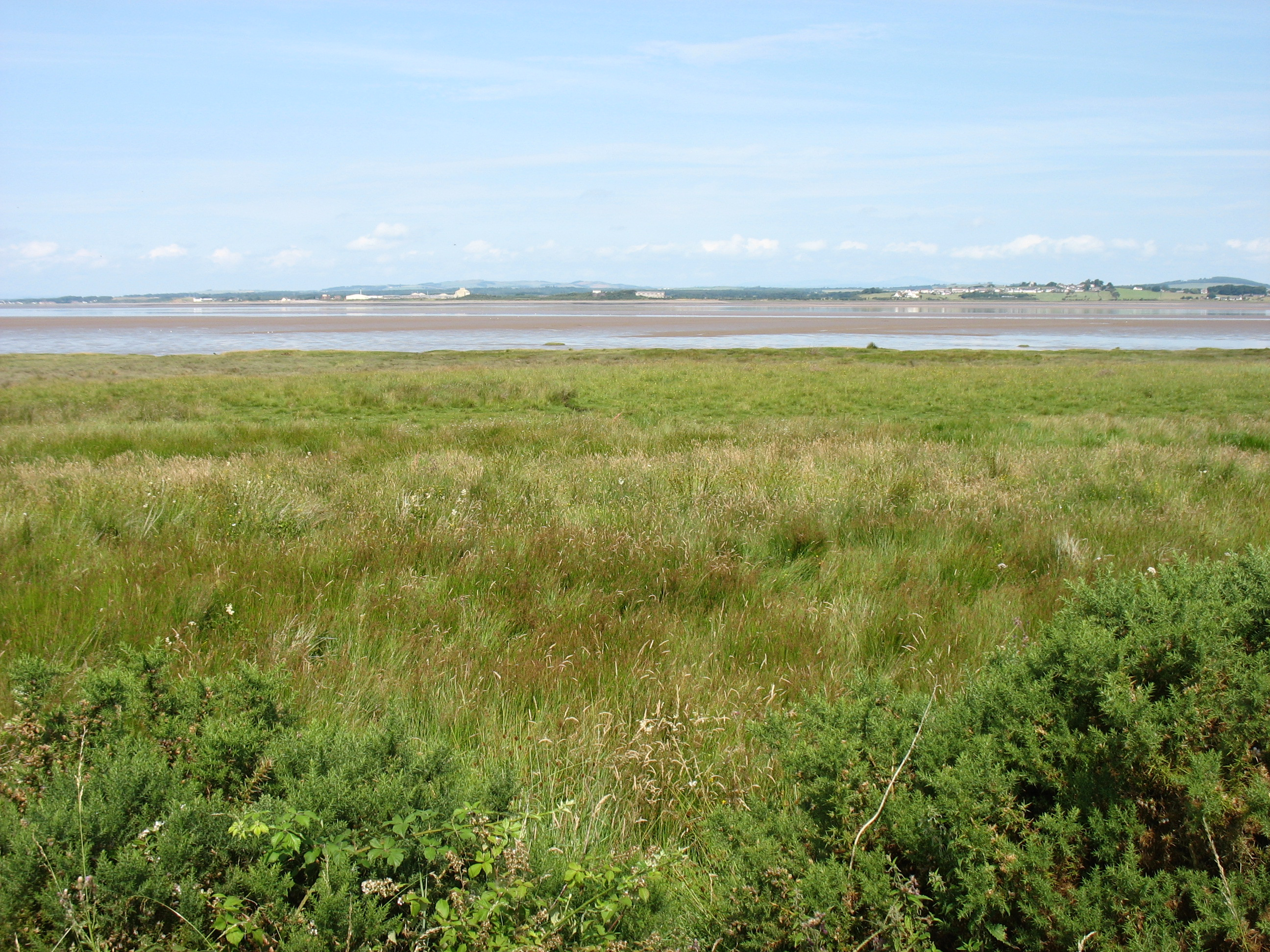 The Solway Firth at Campfield Marsh